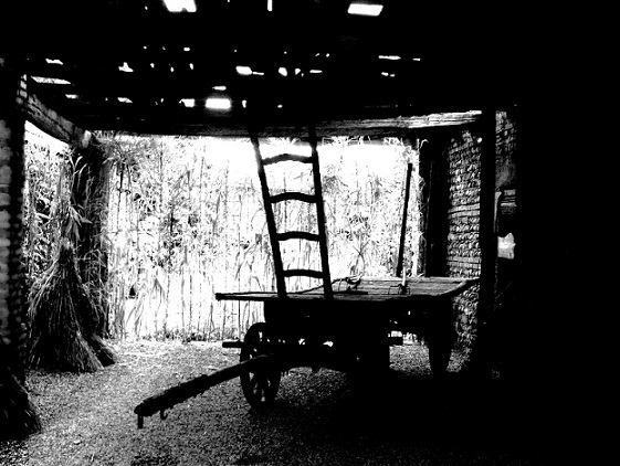 Harry Bertoia's Birthplace (Barn)